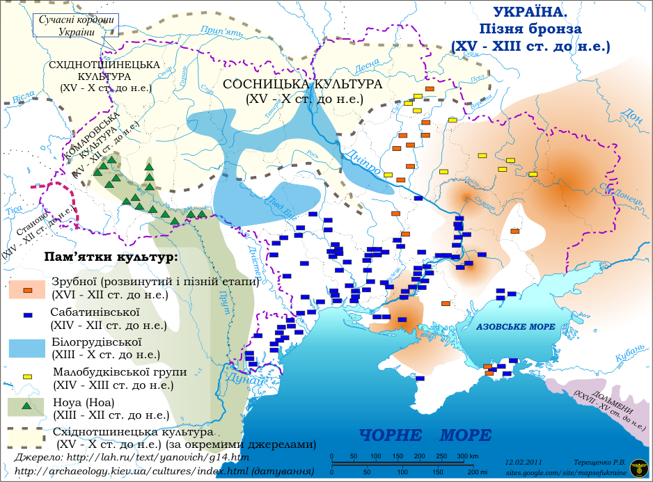 Late Bronze Age in Ukraine (mid-I millennium BC.). carcass culture